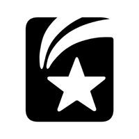 Symbol mark of JNR "Shindai Tokkyū" (Sleeping Limited Express)